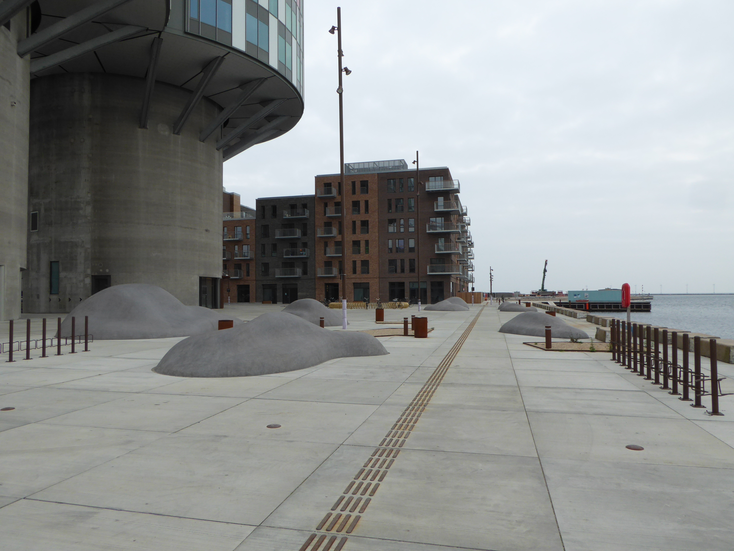 The square Göteborg Plads in Nordhavn in Copenhagen.